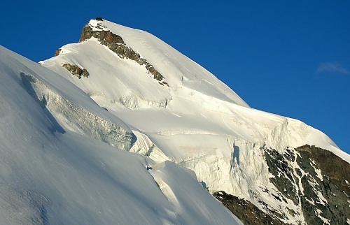 Allalinhorn (Valais, Switzerland).